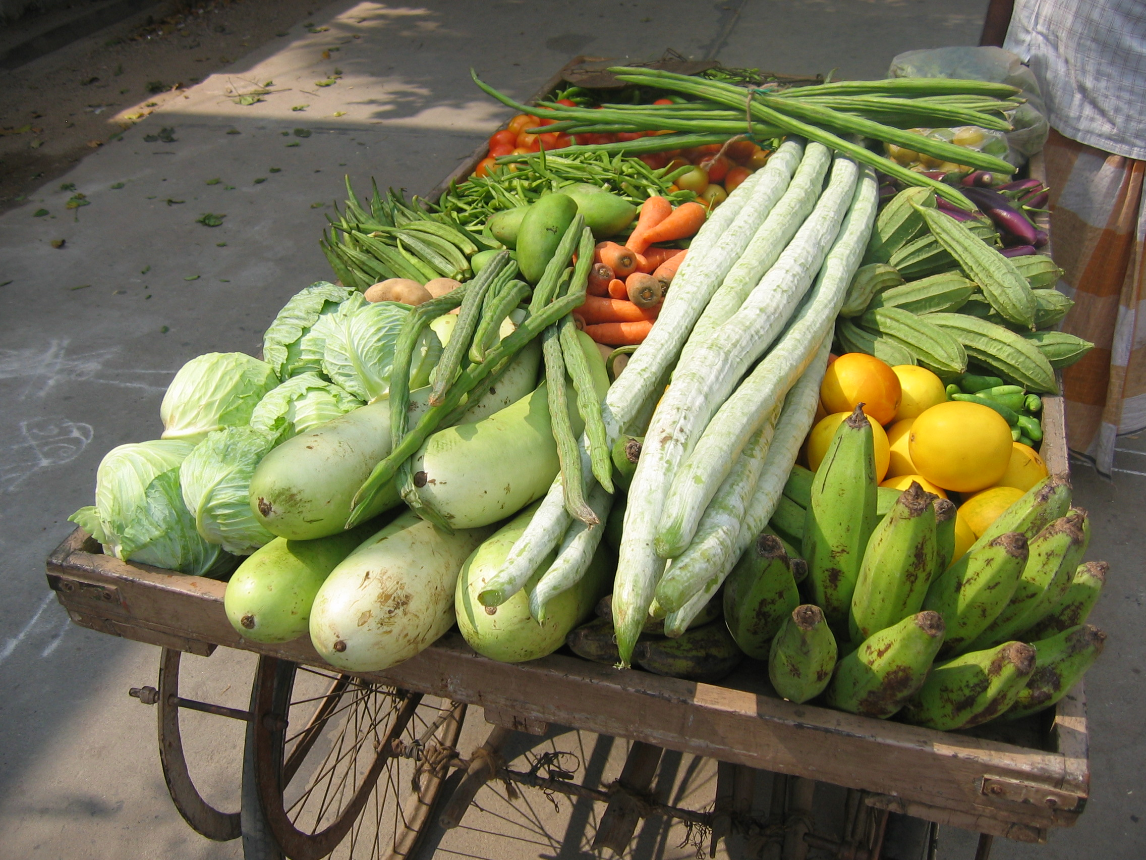 Variety of fresh vegetables being sold on a street at Guntur, India.